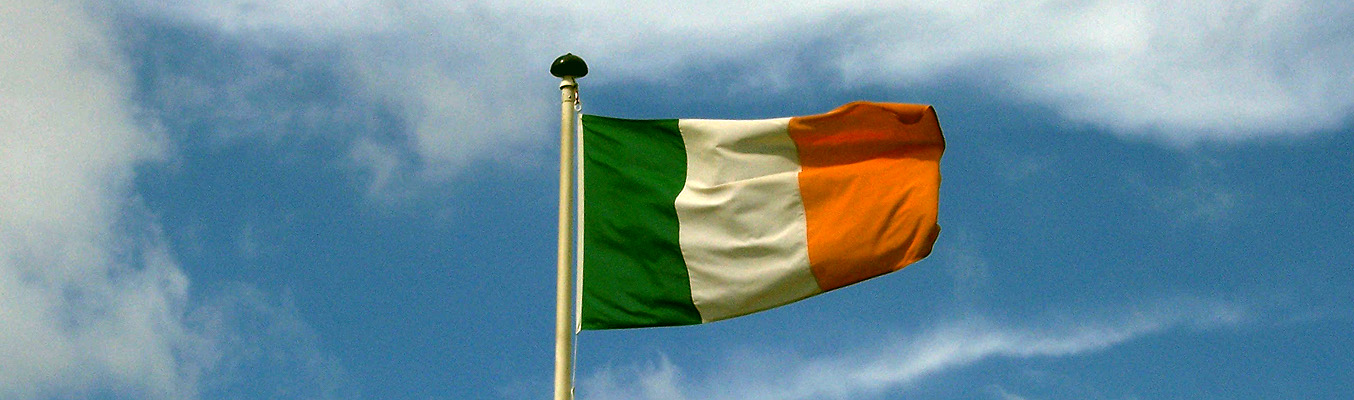 Irish flag in Malahide marina update 13/06/2008 Today Ireland said no to Lisbon Treaty. Today Ireland showed that being small doesn't mean being silent. Go, Ireland, go!